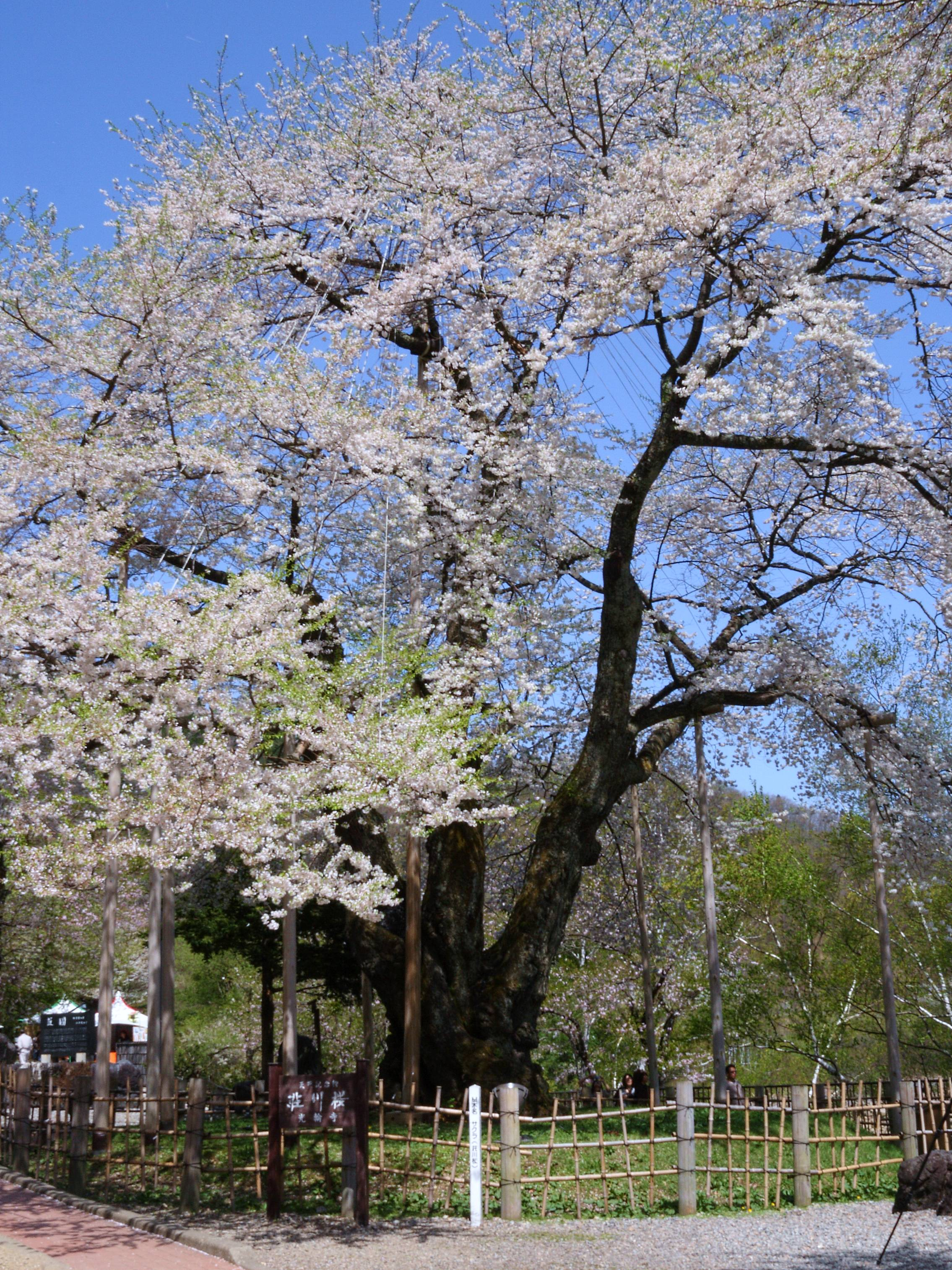 Shōkawa zakura.